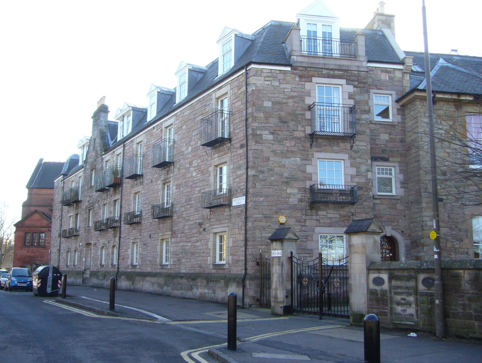 Former Bruntsfield Hospital, Whitehouse Loan Edinburgh